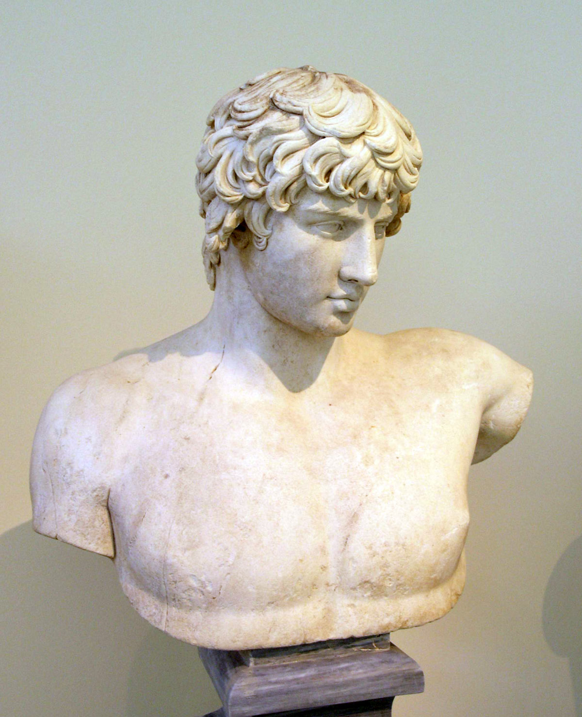 Ancient Roman bust of Antinous. Hadrian age ((AD 130-138 CE), Thasian marble. Found in Patras. National Archaeological Museum in Athens, Room 32.